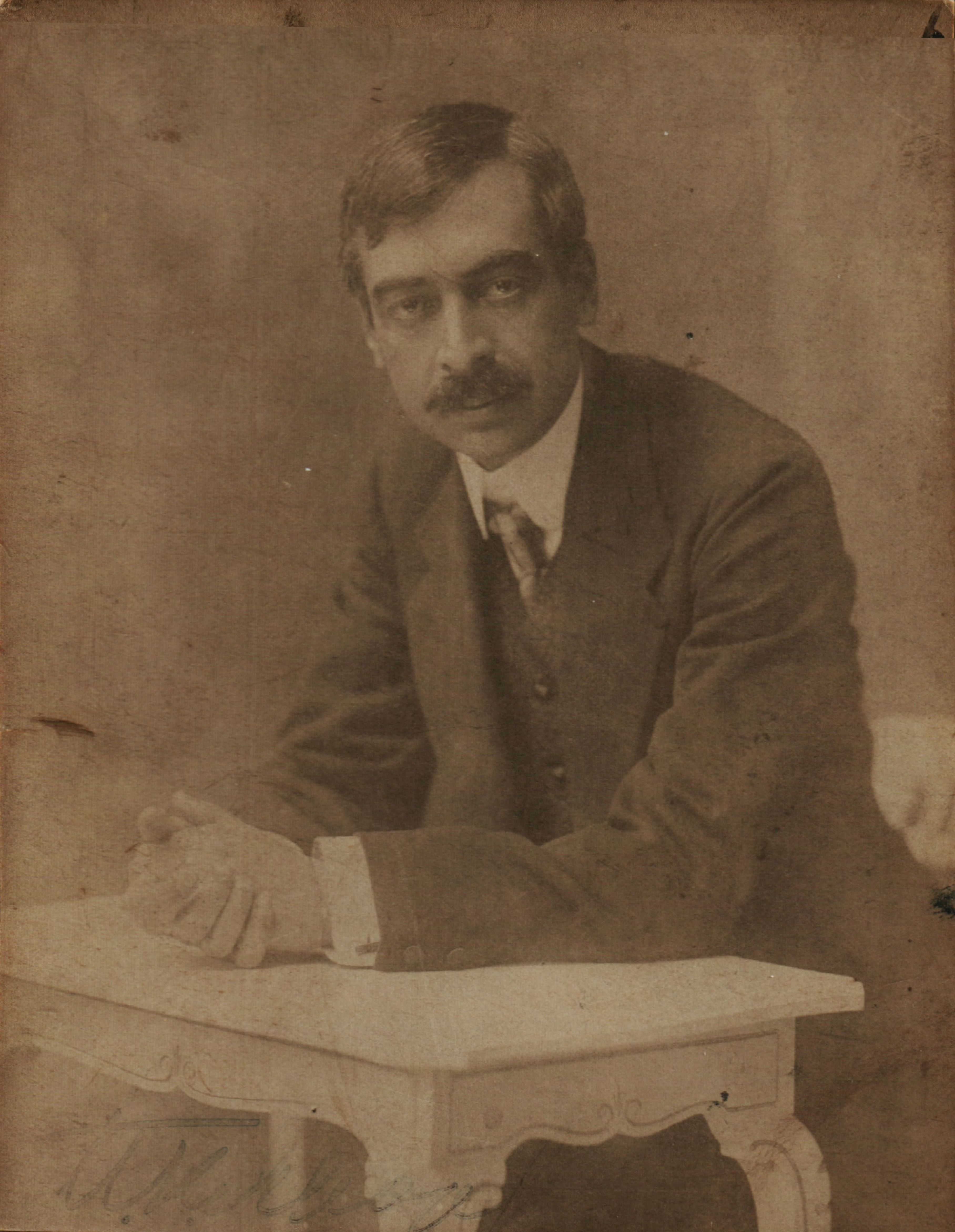 Bulgarian writer Yordan Stubel with dedication to Tsveta and Vladimir Vassilev. In the bottom right corner: "To Tsveta and Vlado."